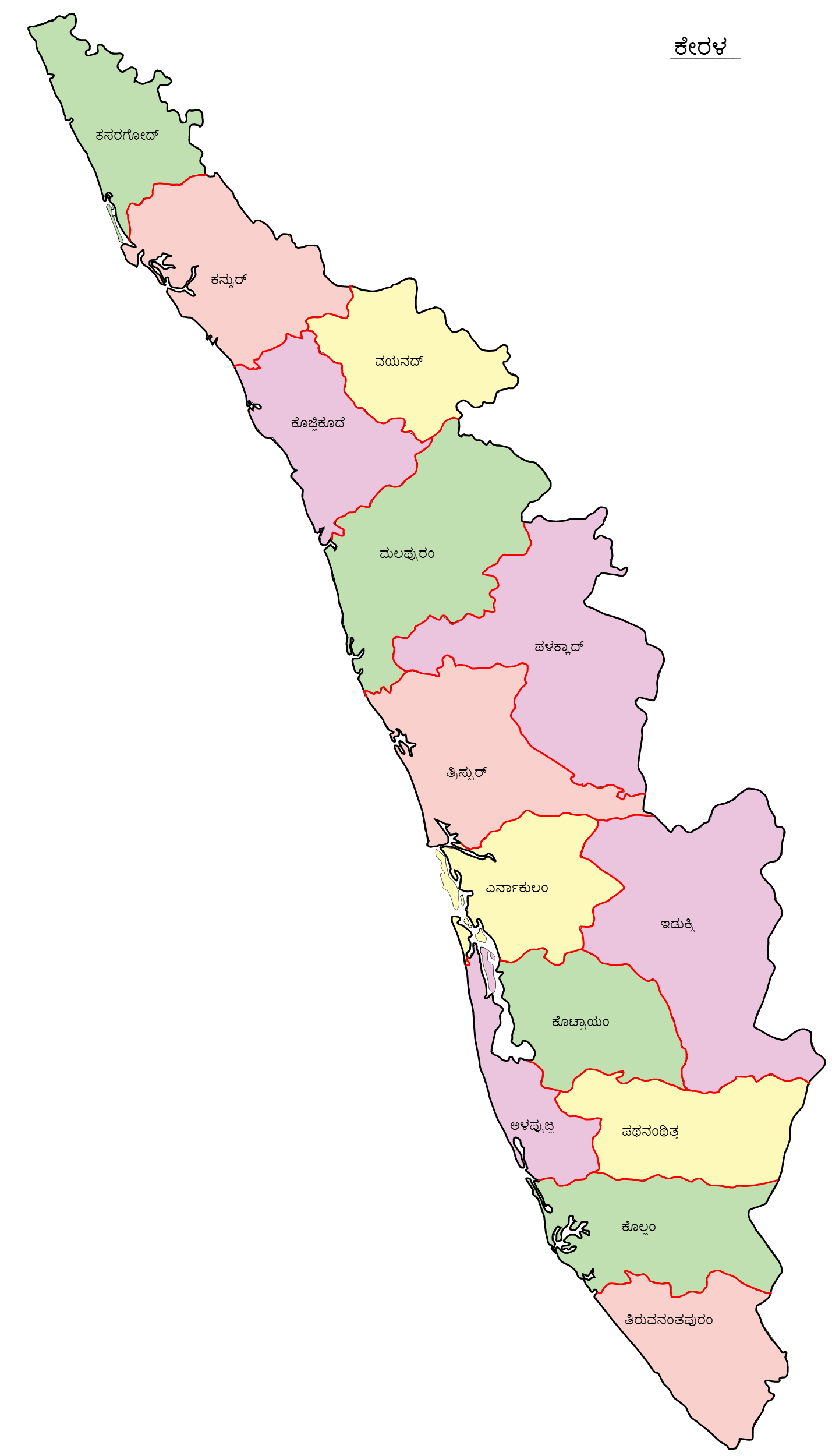 Kerala map in Kannada